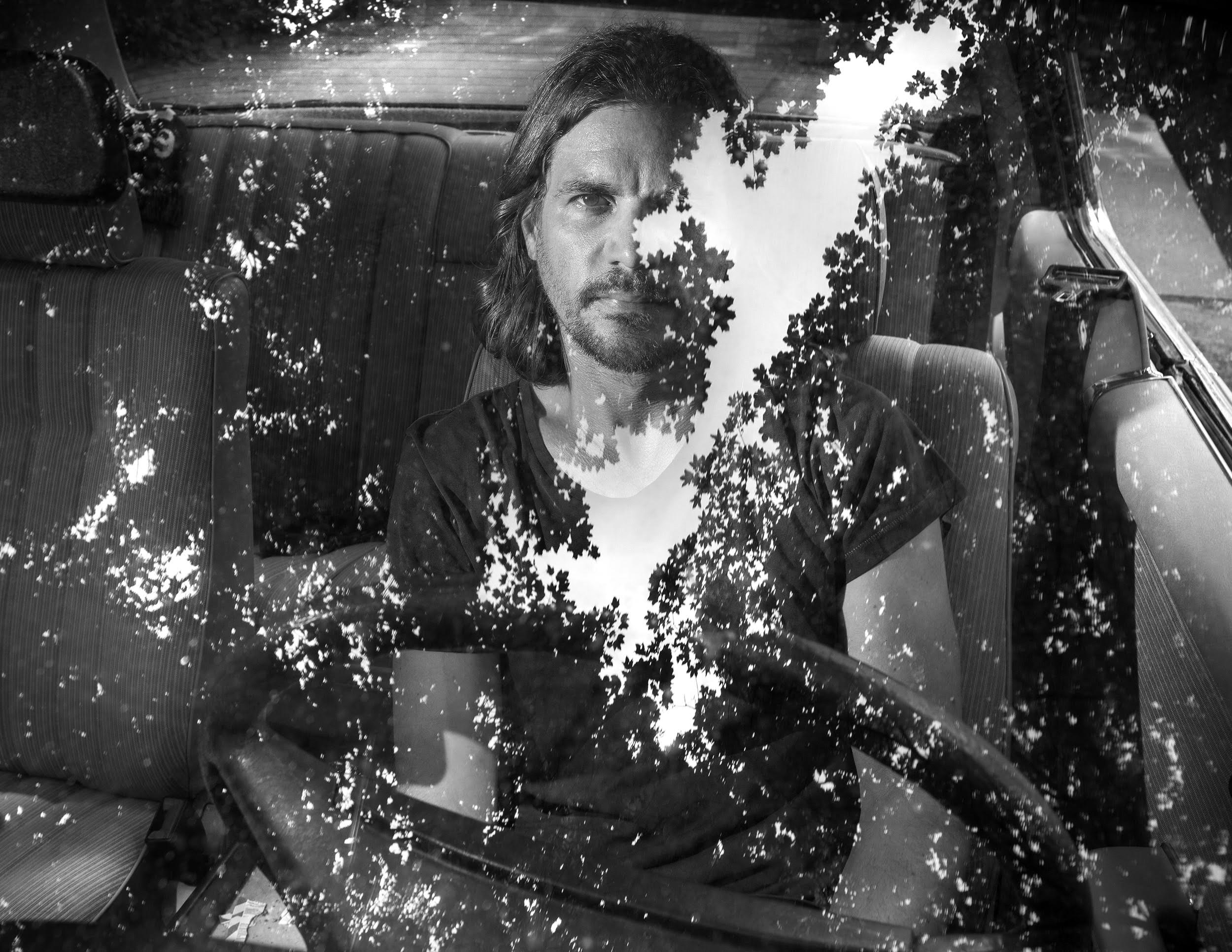 Michael Sailstorfer portrayed by Oliver Mark, Berlin 2018